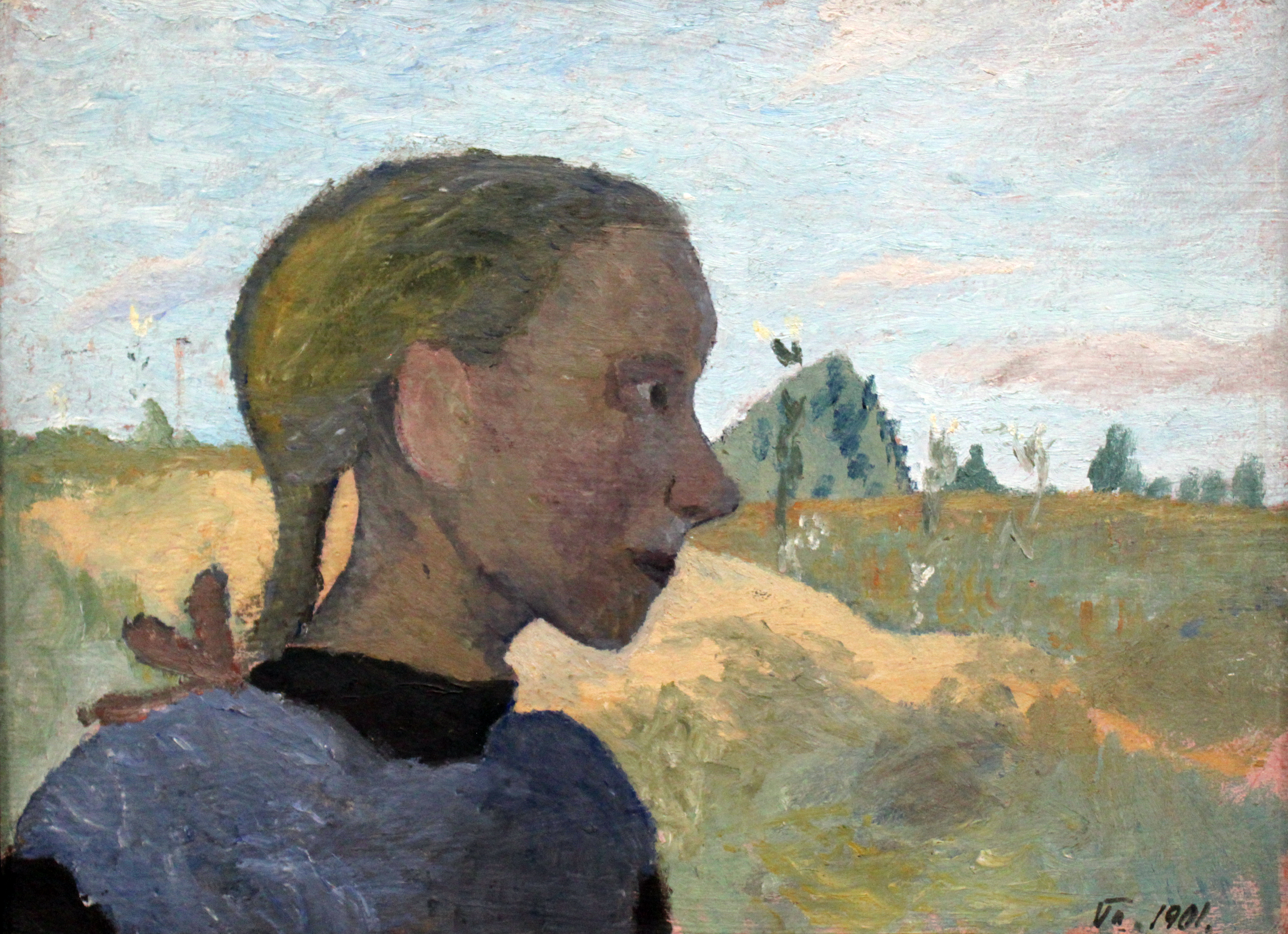 Portrait of a Girl